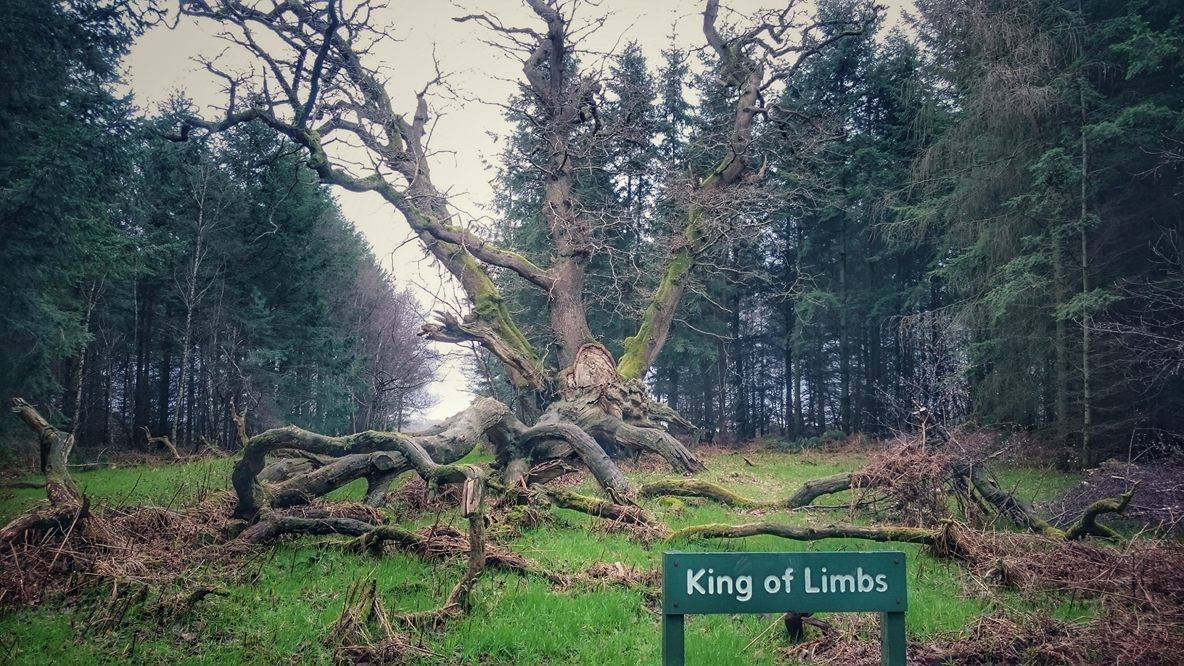 The King Of Limbs tree. The inspiration behind Radiohead's 8th LP title.